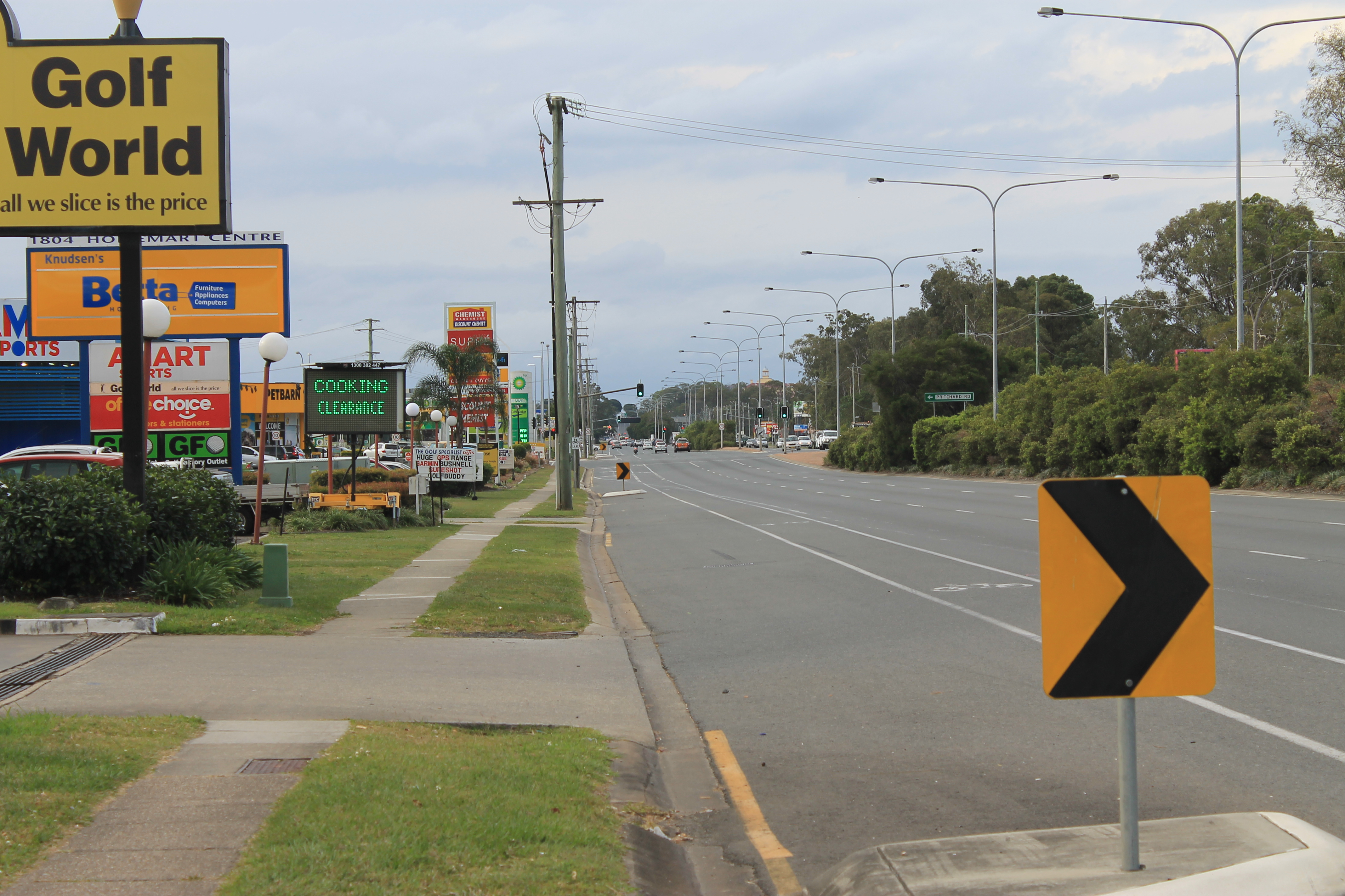 Facing outbound on Sandgate Rd in Virginia, Queensland.